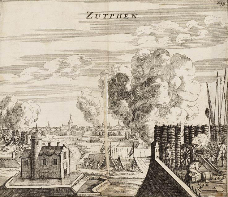 Capture of Zutphen by Maurice of Orange in 1591